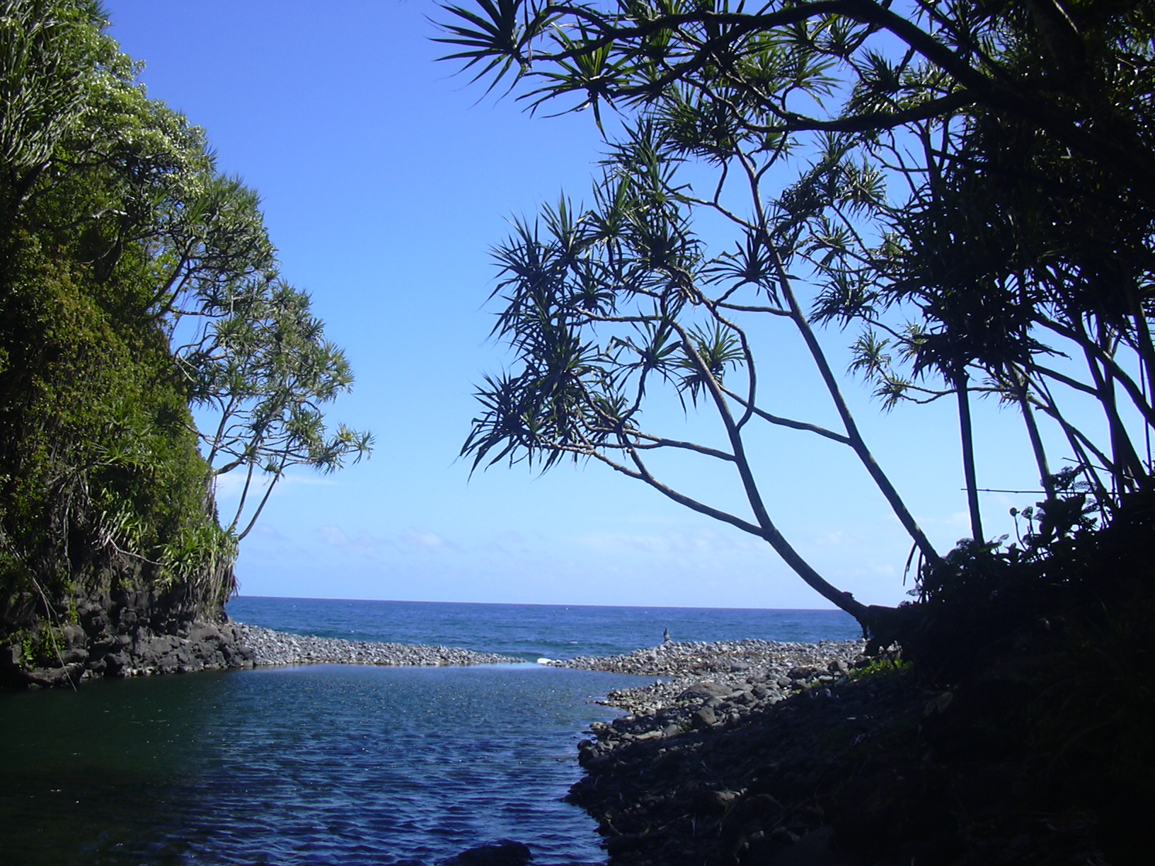 Pandanus tectorius (habit). Location: Maui, Hanawi stream